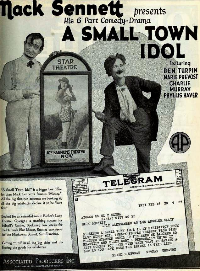 Advertisement for the American comedy film A Small Town Idol starring Ben Turpin, Marie Prevost, and Charles Murray, on page 9 of the March 6, 1921 Film Daily.